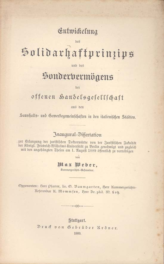 Max Weber: Entwickelung des Solidarhaftprinzips und des Sondervermögeens der offenen Handelsgesellschaft aus den Haushalts- und Gewerbegemeinschaften in den Italienischen Städten. Dissertation, Friedrich-Wilhelms-Universität, Berlin 1889